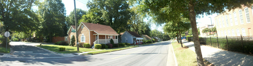 North Charlotte's Neighborhood in Highland Mill Village Houses